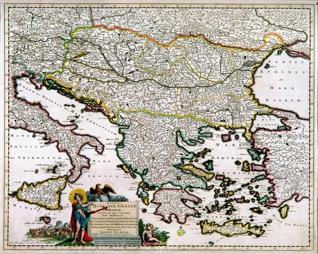 It shows the main Danube Principalities: Bulgaria, Greece, Anatolia and Italy